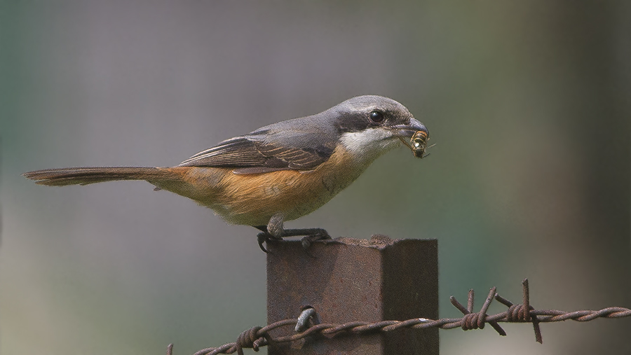 The species Grey-backed Shrike had been photographed during the birding trip of GoingWild in Khangchendzonga Biosphere Reserve at West Sikkim, India on 21.02.2016.